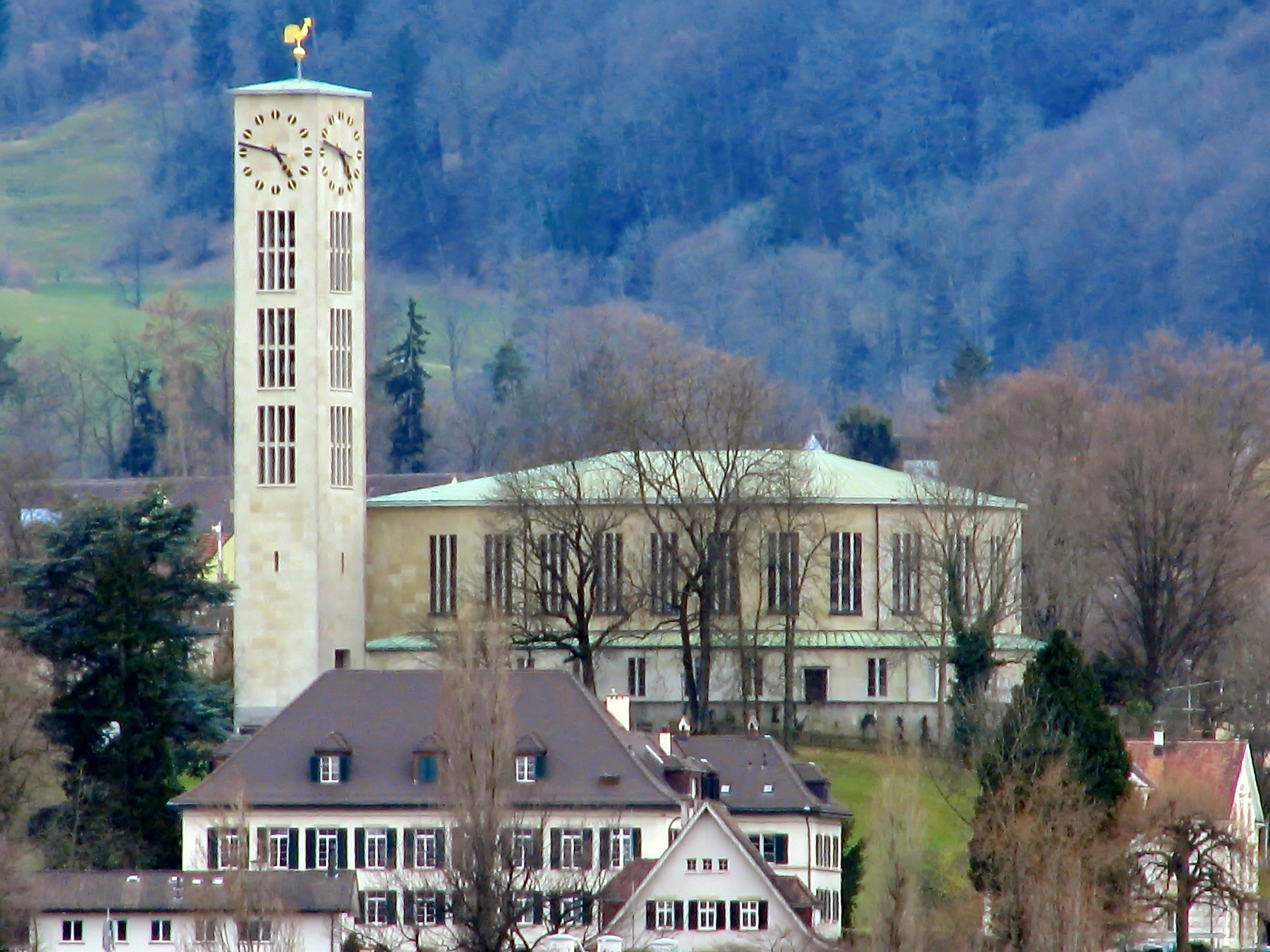 Zürich-Wollishofen : Neue Kirche (new church), seen from the Southeast.